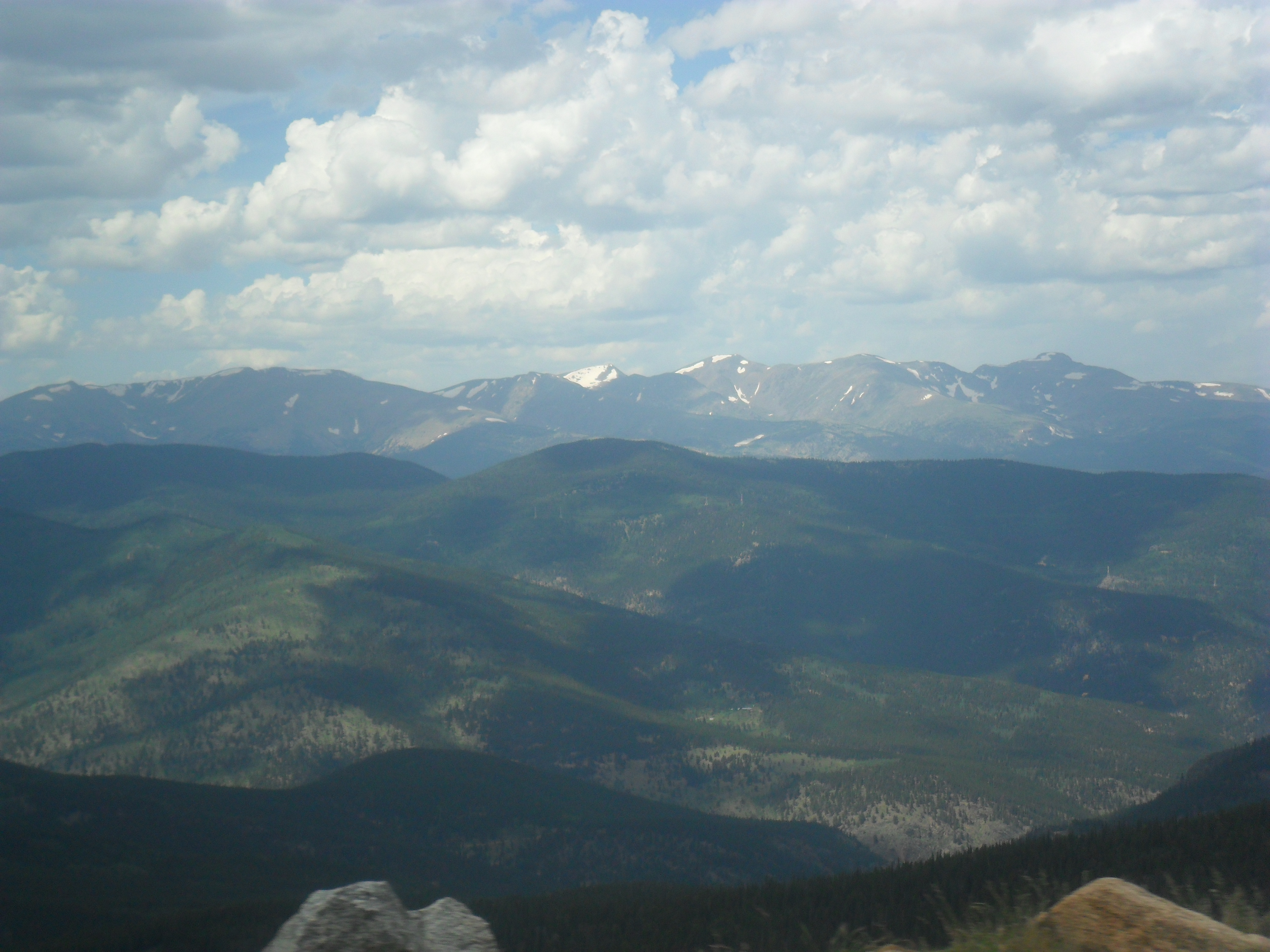 View from Mount Evans Byway